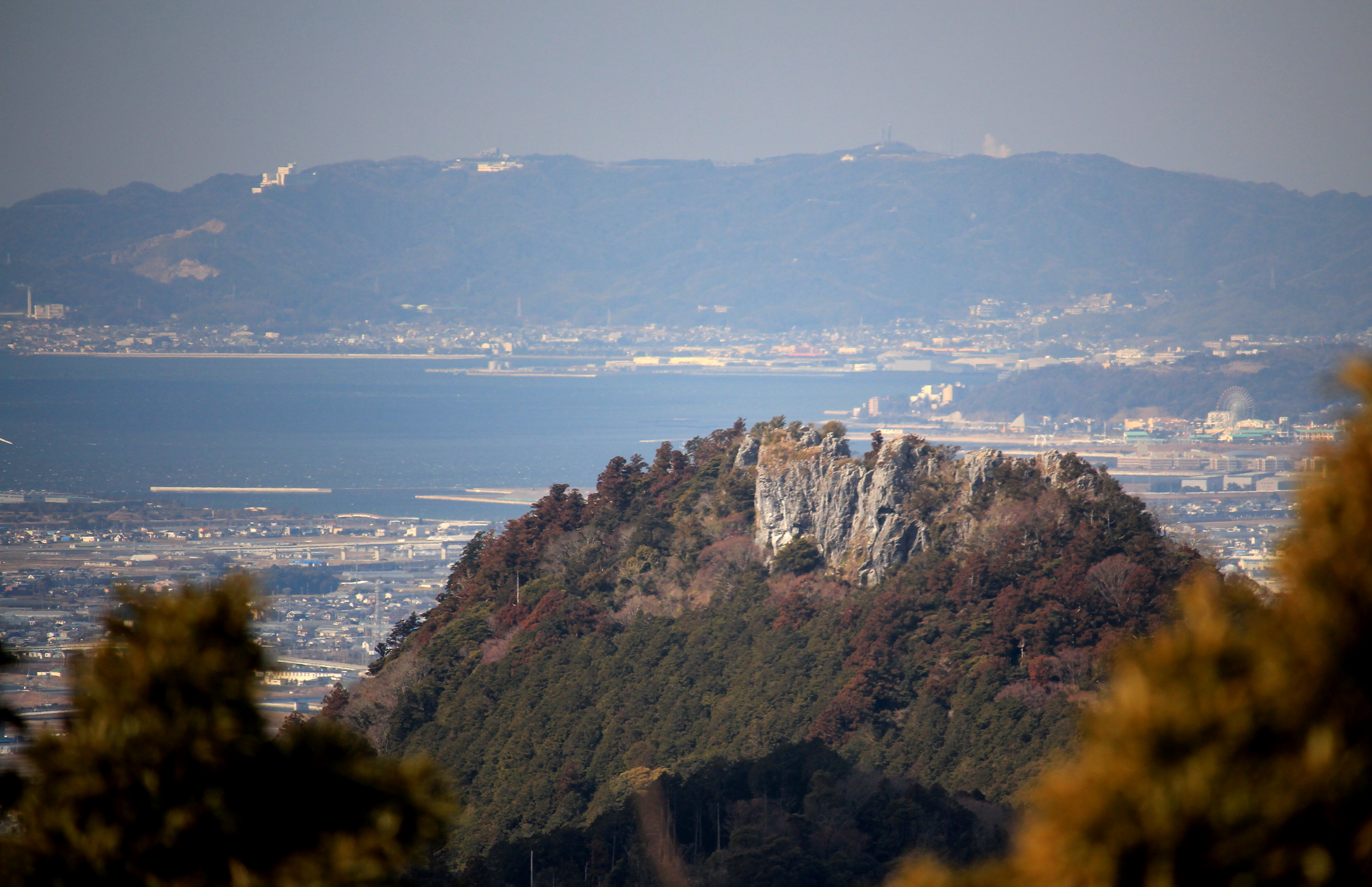 Mount Ishimaki seen from Fujimiiwa on Yumihari Mountains, in Toyohoshi Aichi prefecture, Japan.